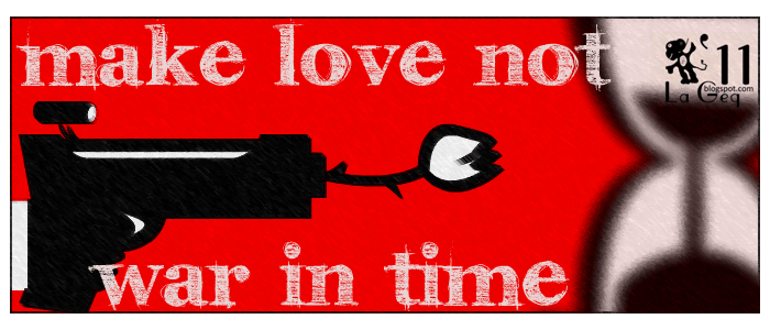 in this cartoon time is context for love and war